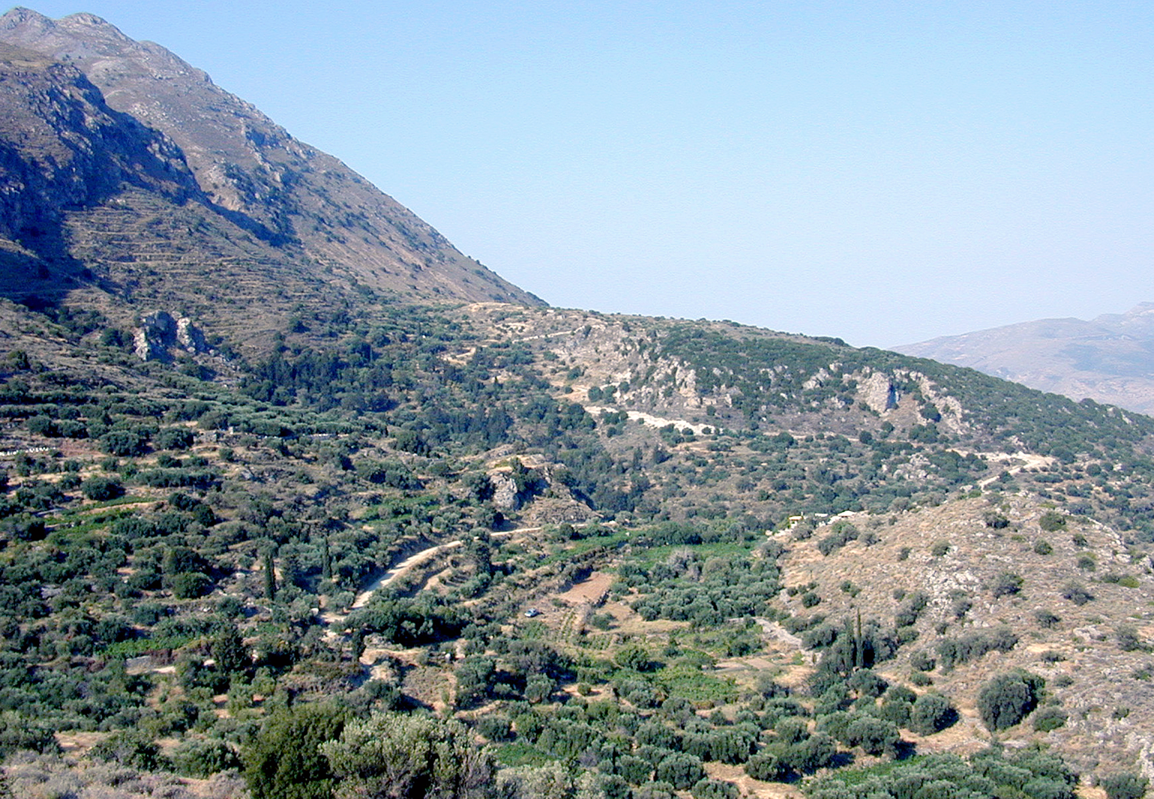 View of the Vronda ridge (Xerambela), looking southwest from Azoria (2002).